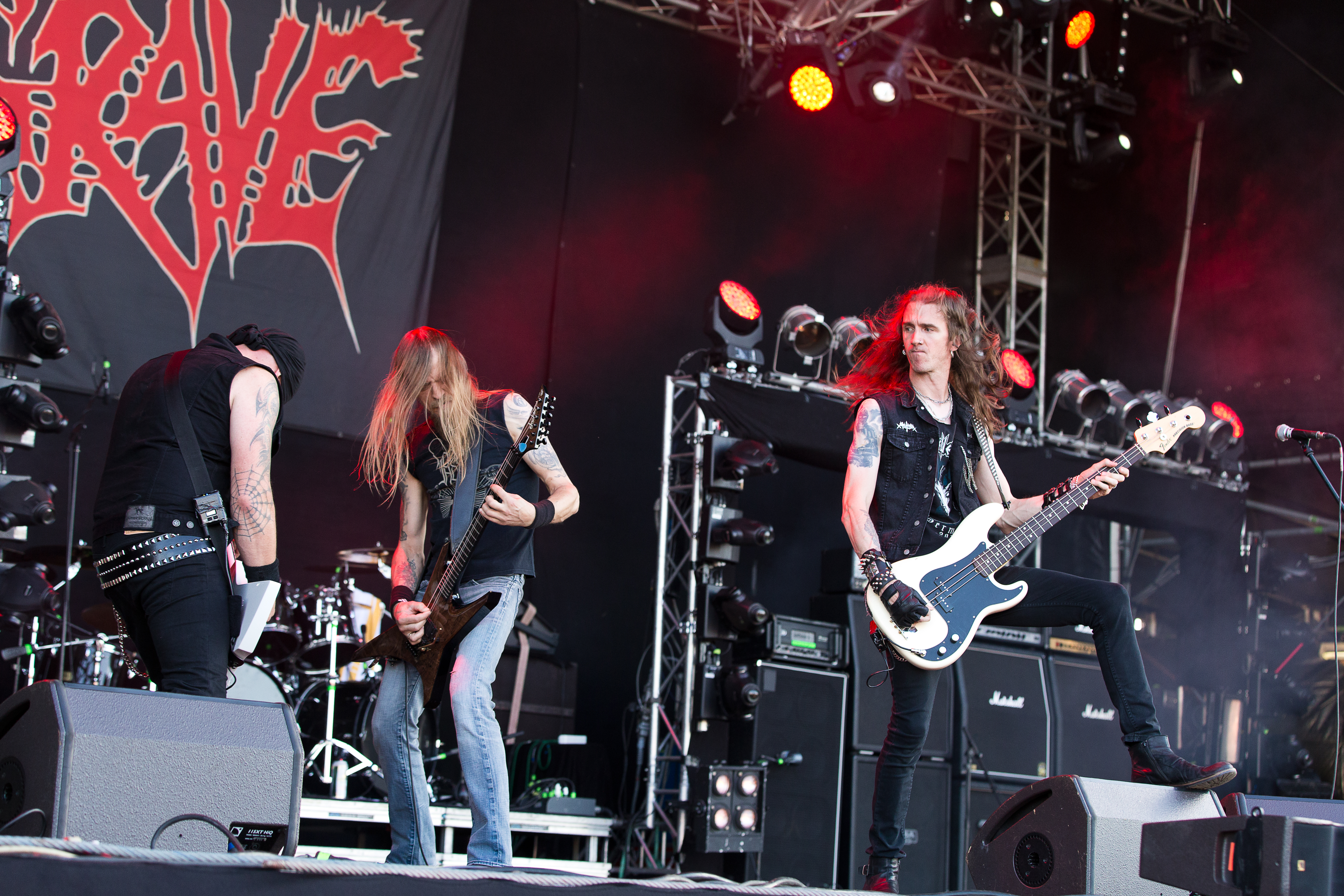 The Swedish death metal band Grave at the Party.San Metal Open Air 2016 in Obermehler-Schlotheim/Germany.